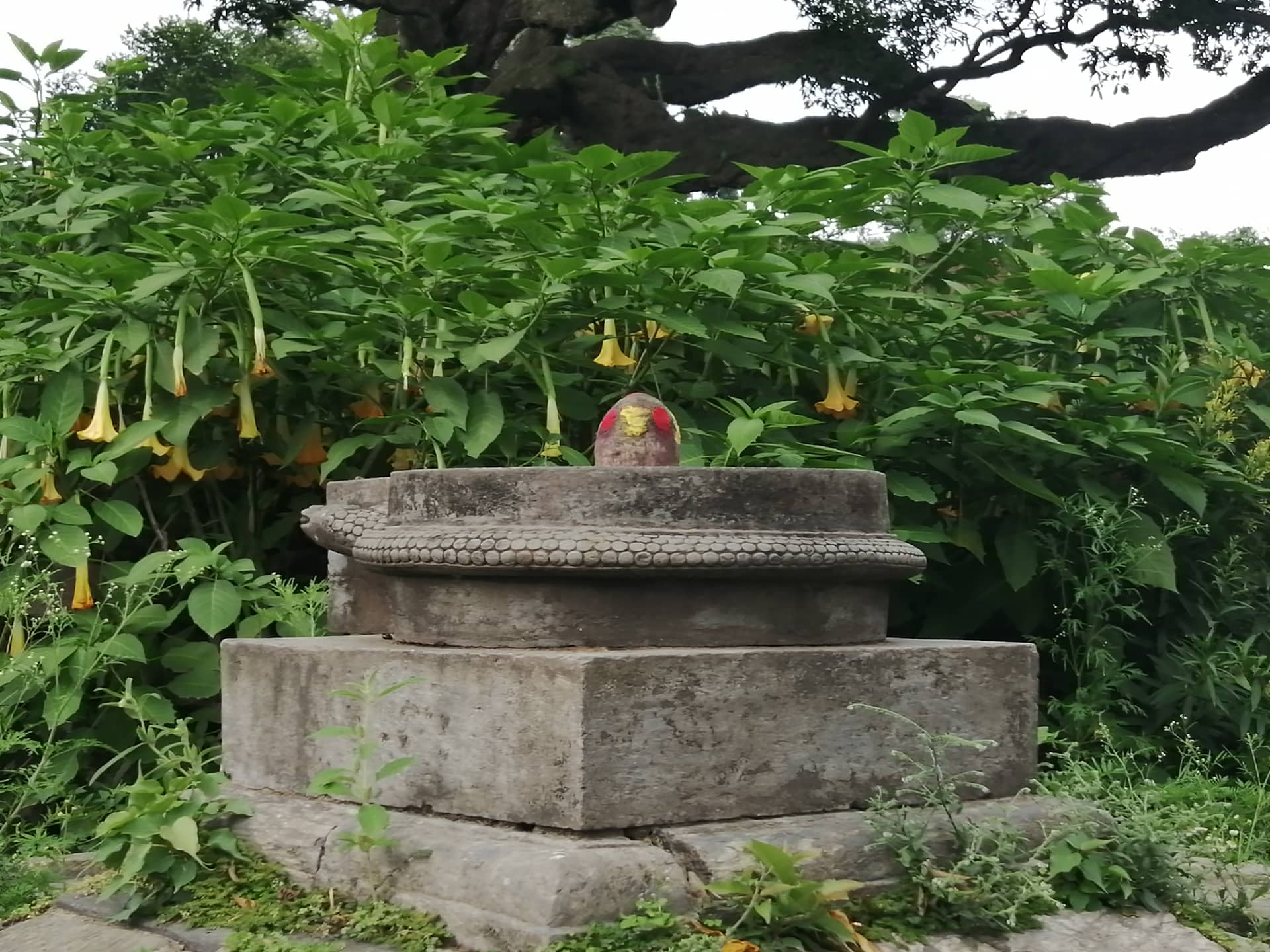 Brugmansia in Pashupatinath Temple compound. Can be found during monsoon season.